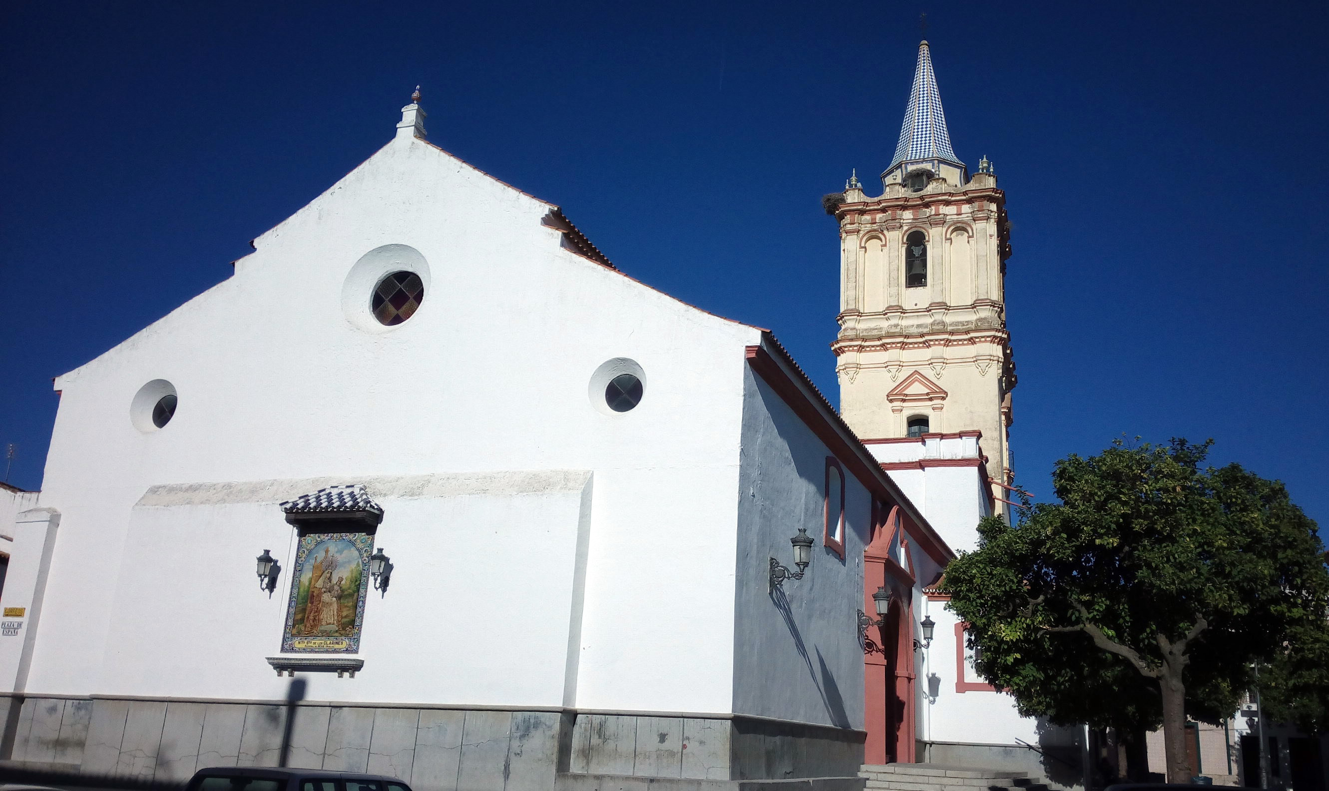 Parish Church of St. San Bartolomé Apóstol